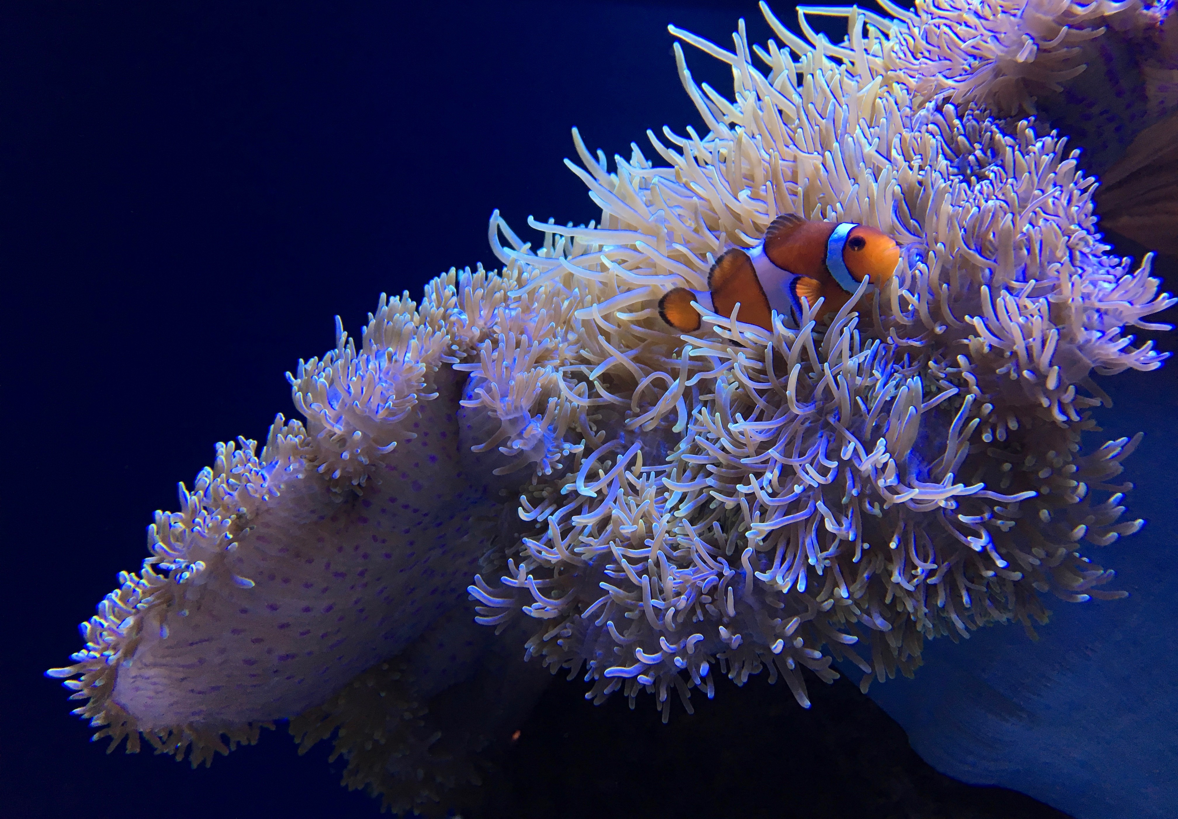 Clown anemonefish with sea anemone at the Seattle Aquarium (Tropical Pacific section).